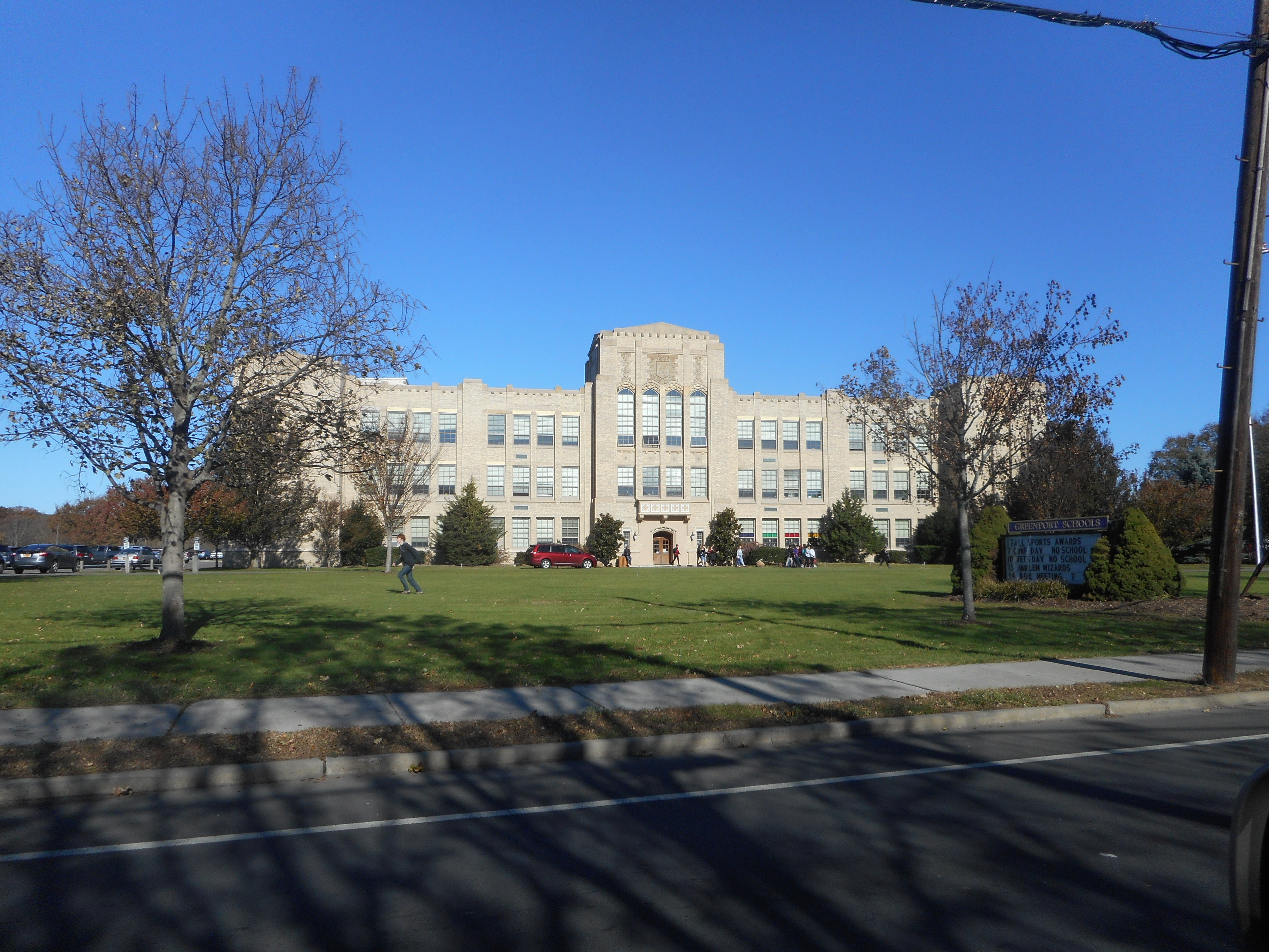 First shot of the Greenport High School at 720 Front Street (New York State Route 25), in the Village of Greenport, New York. Like many school buildings on the east end of Long Island (though mostly along Montauk Highway on the South Fork), this school looks like it was meant to be along the road.